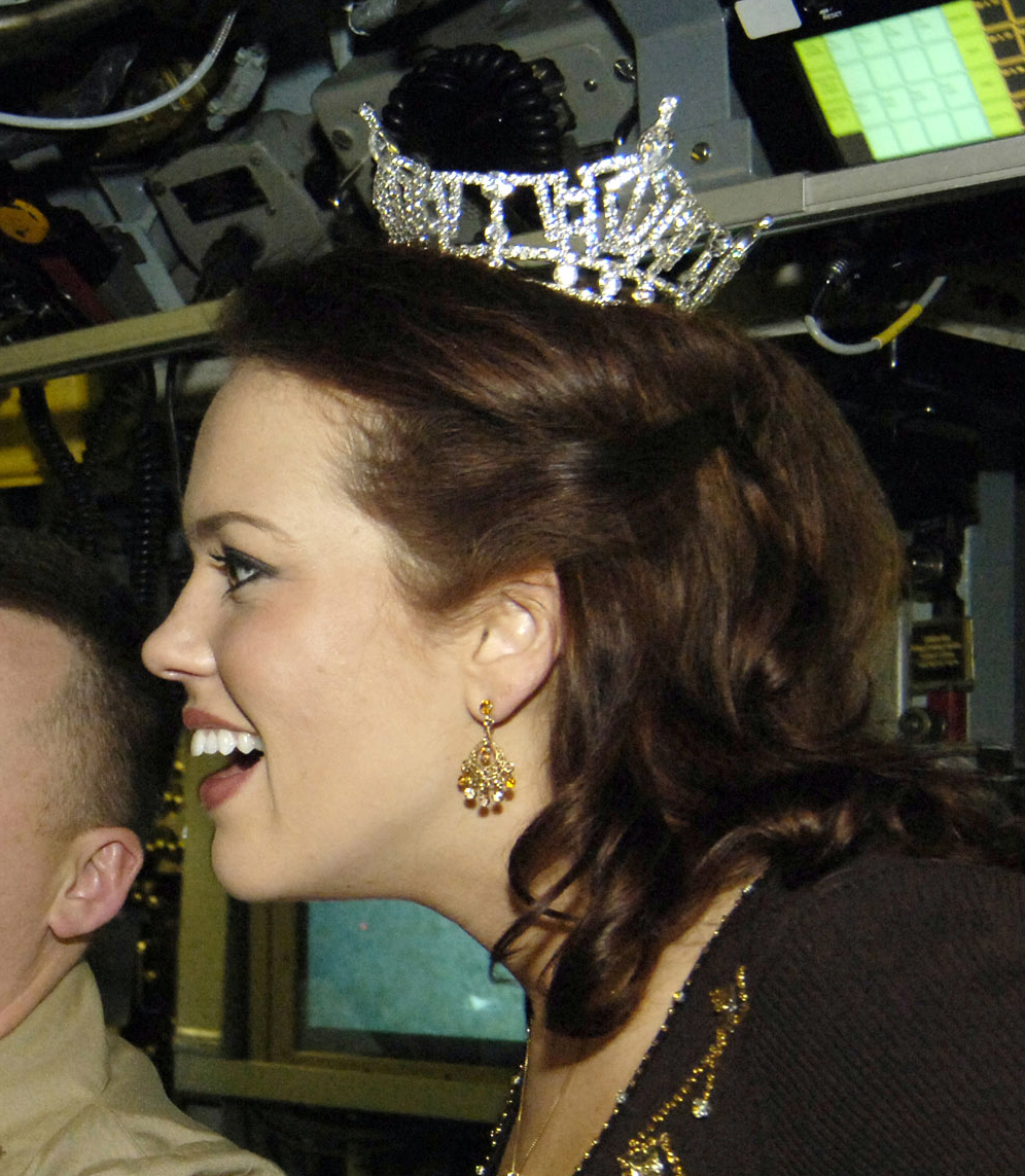 070206-N-8467N-001 Groton, Conn. - Miss Connecticut 2006 Heidi Voight onboard USS Connecticut (SSN-22) during a tour of the boat.